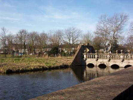 Pons Pacis or 'Peace bridge' in Heemstede park 'Het Oude Slot'. The park is situated at the site of the former castle 'Heerlijkheid Heemstede', or 'Huis te Heemstede', at a strategic position on mouth of the Spaarne river on the Haarlem lake (since 1853 pumped dry and called the Haarlemmermeer polder). The bridge was built by Adrian Pauw to celebrate the Peace of Munster in 1648. Photo taken from the 'Nederhuys' or gatekeeper's entrance side of the moat around the old castle site.